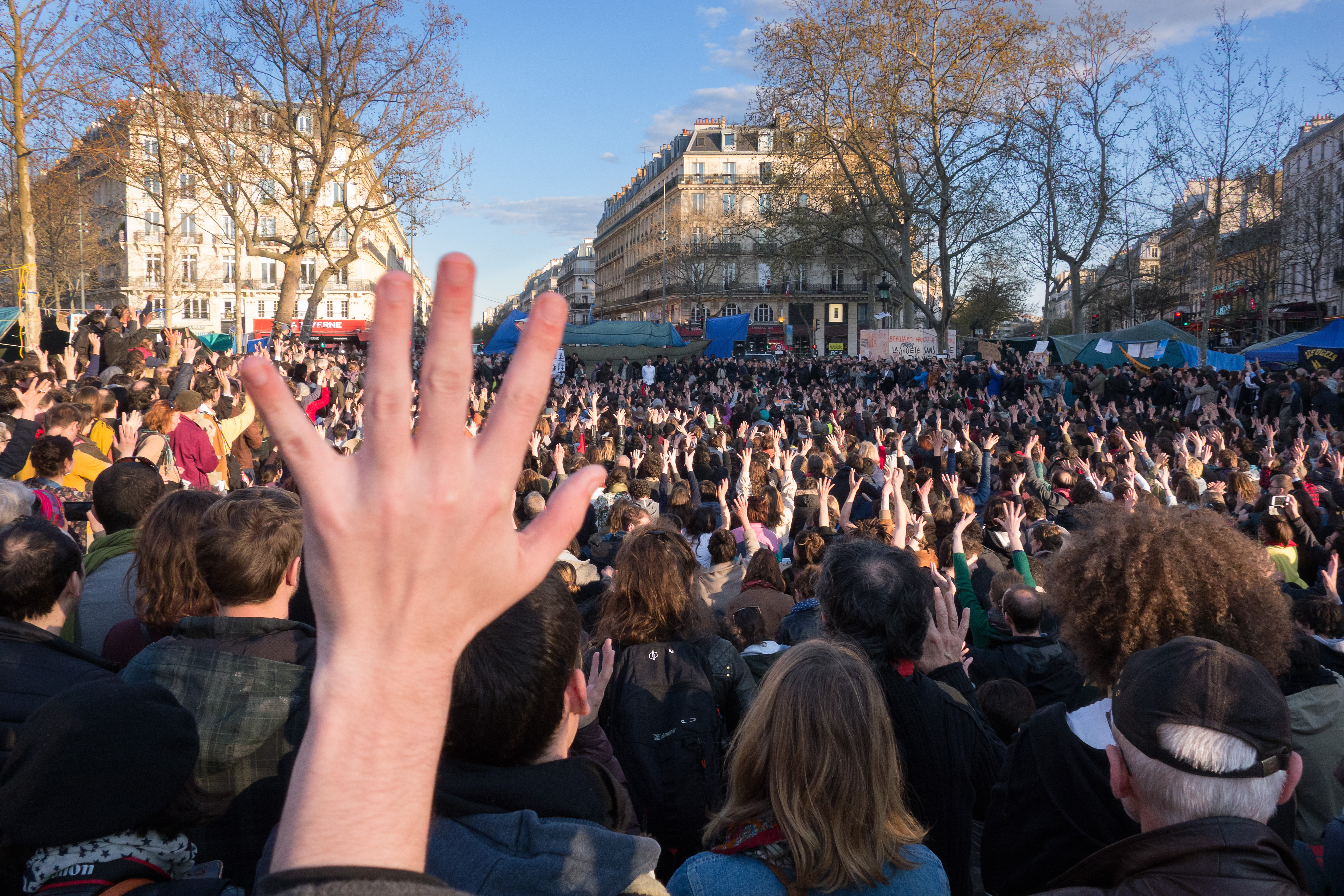 People have been gathering in Republic place, every night for 10 days, in order to discuss about how to improve society. Rising hands means you agree with the speaker.